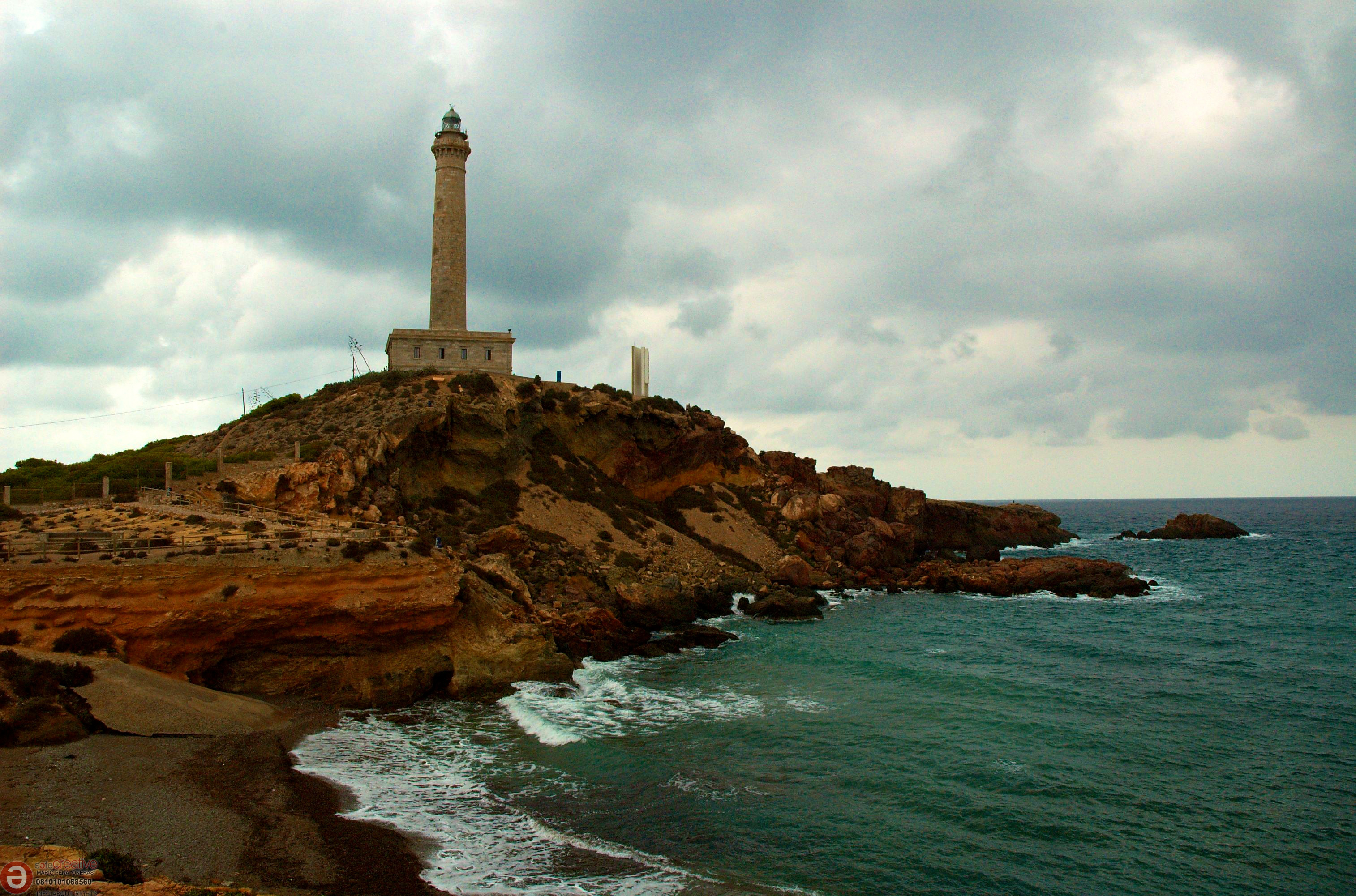 Cabo de Palos, Cartagena, Spain